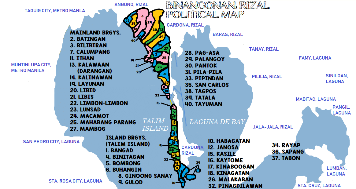 It shows the barangays in Binangonan, Rizal and the adjacent cities/municipalities in the area